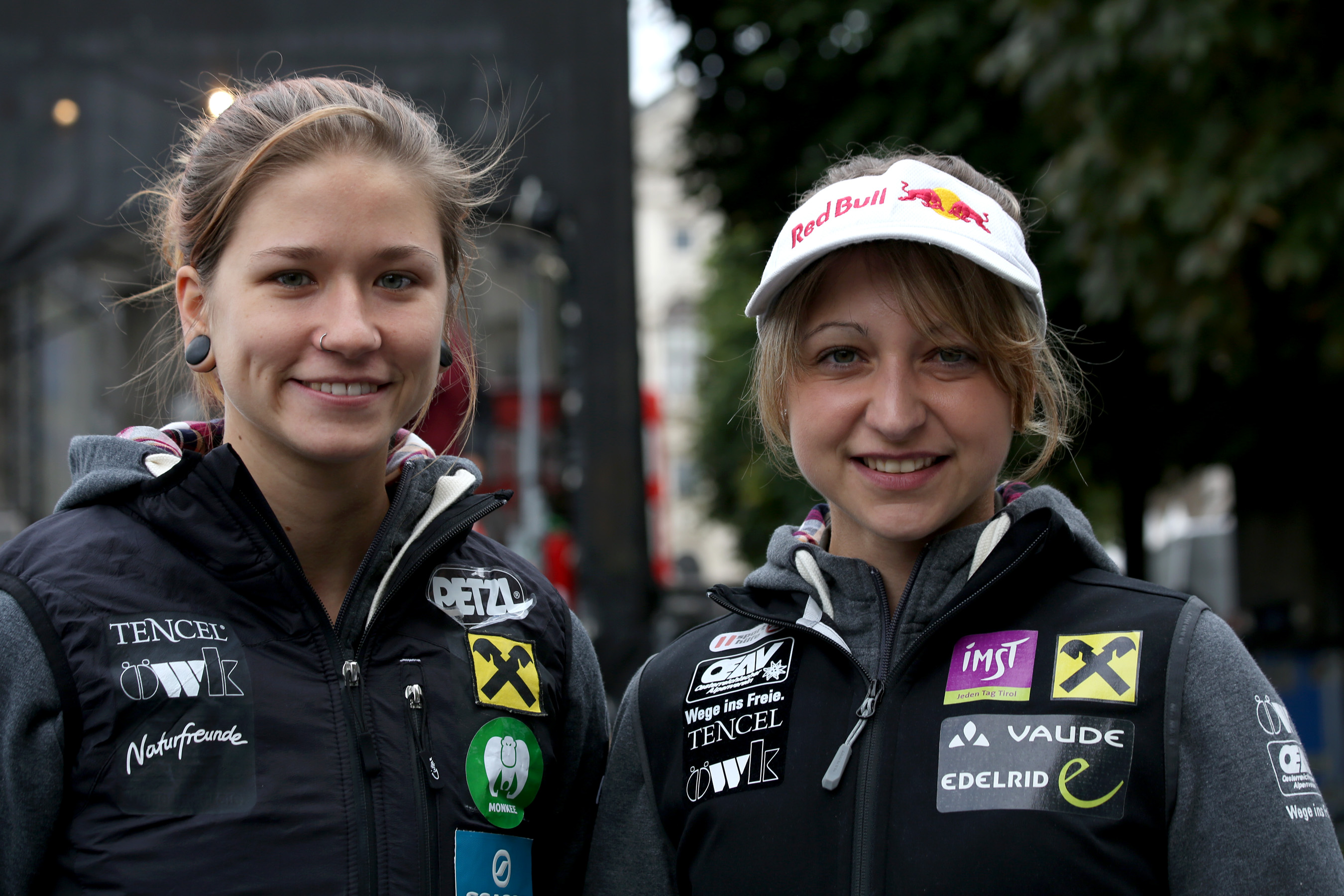 Johanna Ernst (l.) and Angela Eiter at the Tag des Sports (Day of Sports) 2013 on Heldenplatz in Vienna, Austria.